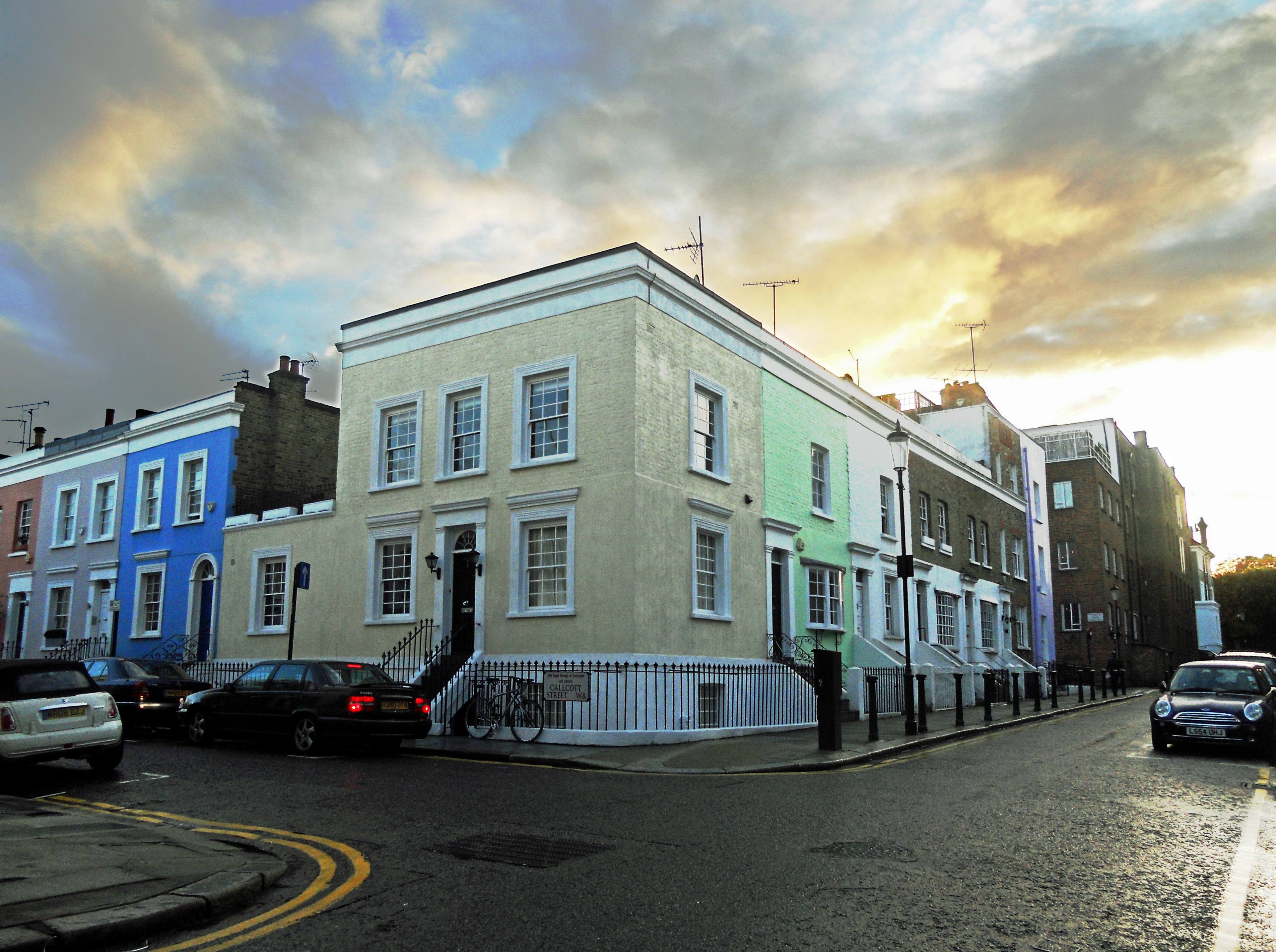 Off Uxbridge Road, Notting Hill Gate, west London. Pastel shaded houses and a fairly dramatic sky.